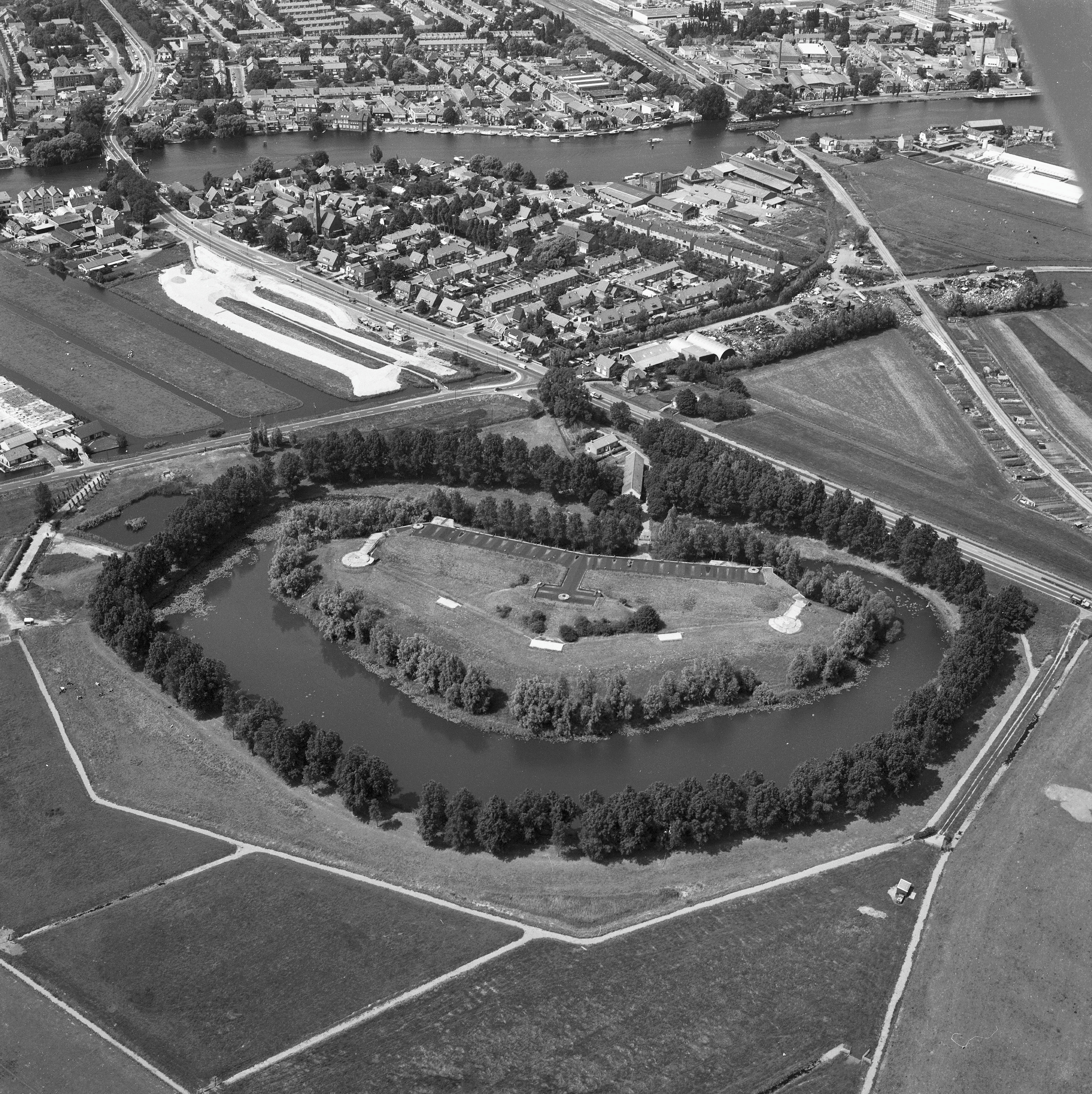 Overviews: aerial photos, part of the Stelling van Amsterdam